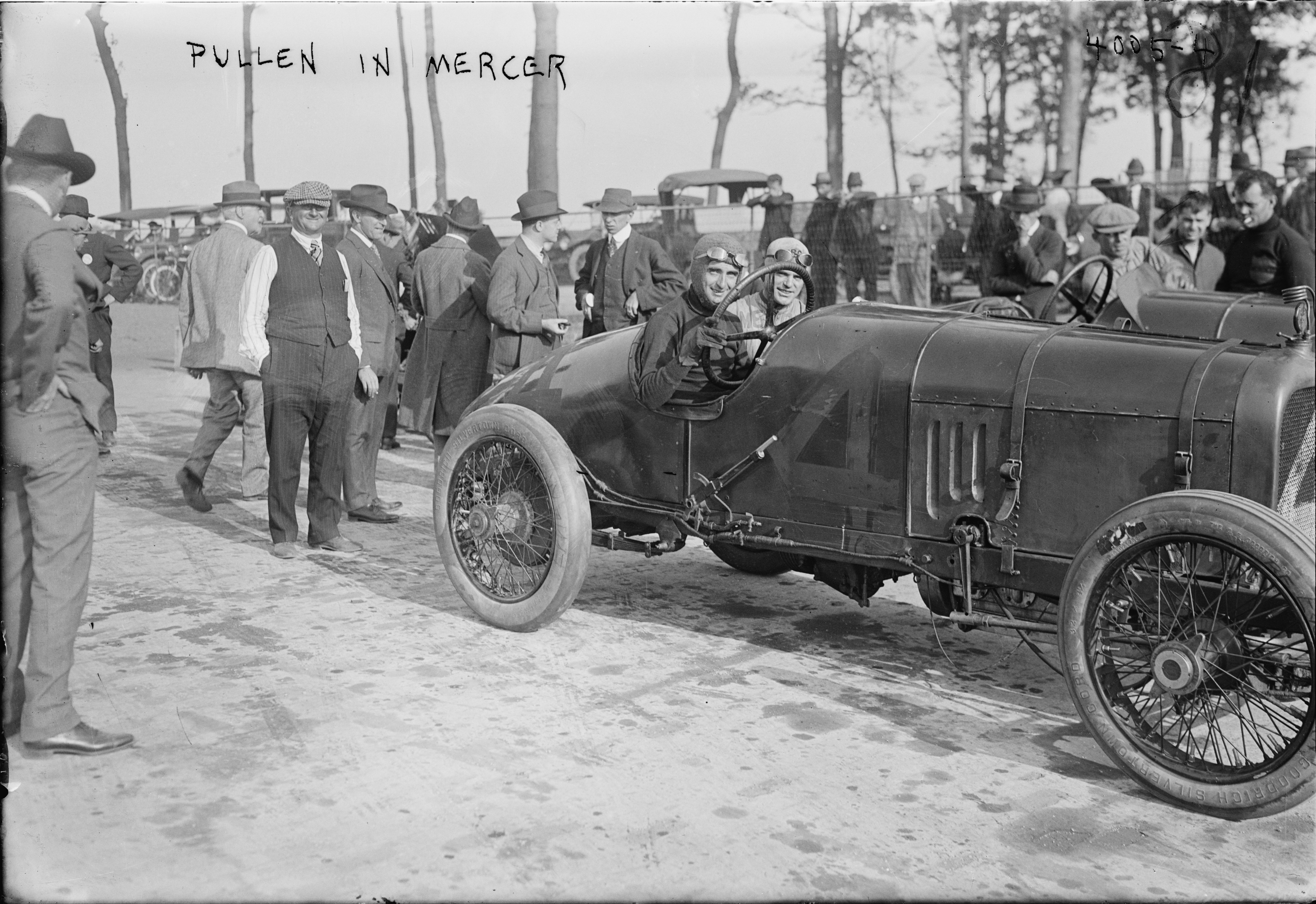 Eddie Pullen (American racecar driver) in a Mercer in 1910s